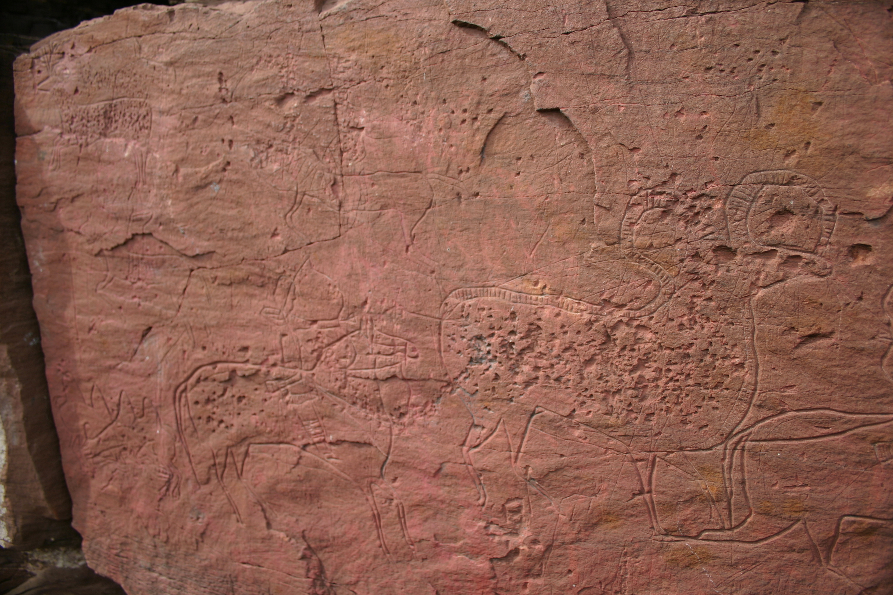 Fragment of Sulekskaya Pisanitsa. Republic of Khakassia